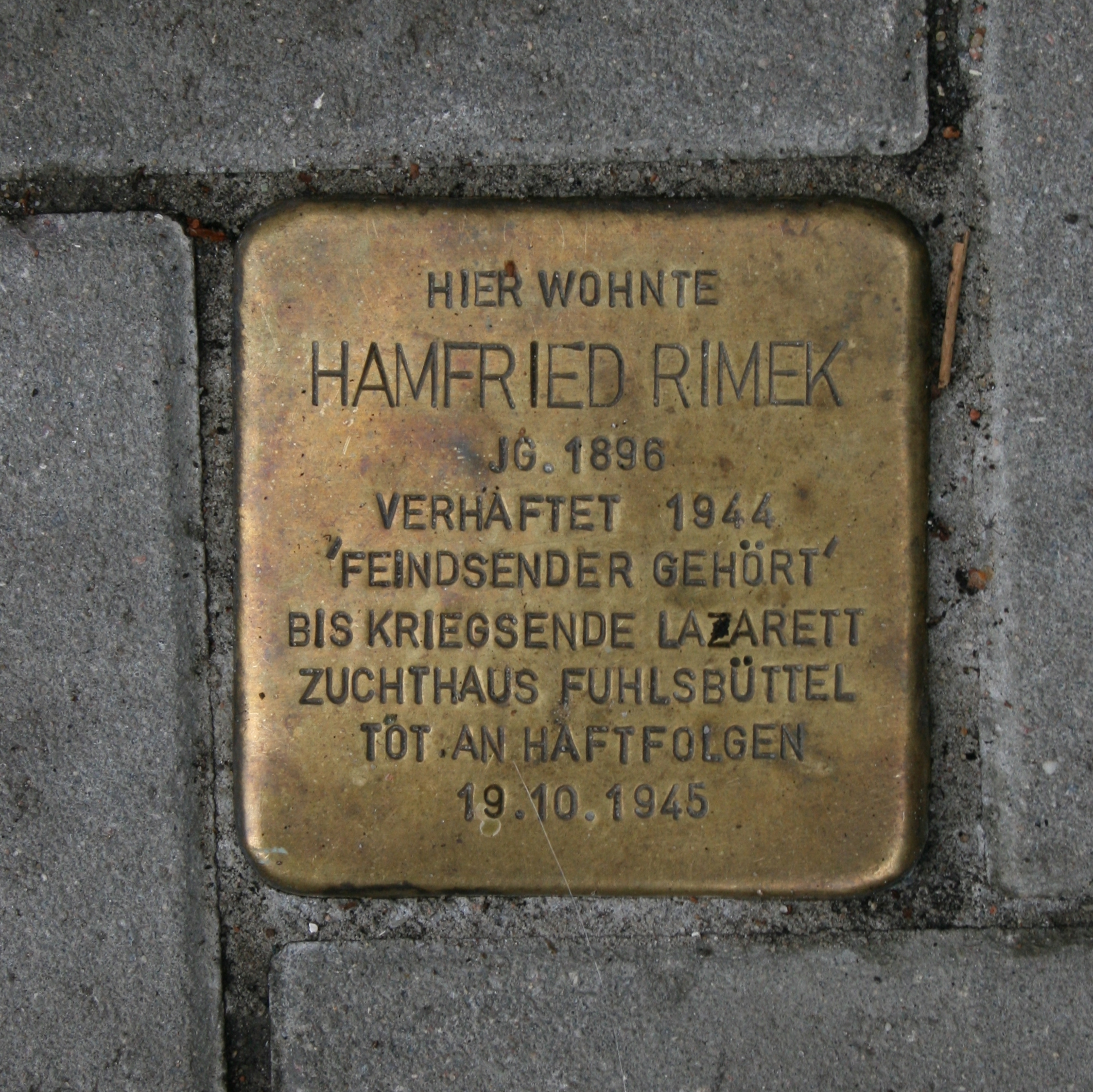 Stolperstein for Hamfried Rimek in Hamburg-Bergedorf, Lohbrügger Weg 21